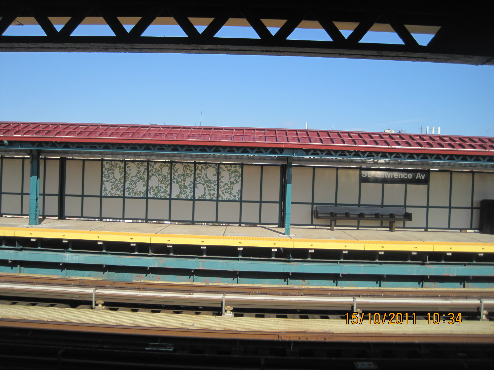 6 train service resumed to Elder Av. and St. Lawrence Av. on Oct. 16, 2011, after it had been suspended for station rehabilitation. This photo shows a rehabilitated platform at St. Lawrence Av. with new artwork installed. Photo by Metropolitan Transportation Authority / Miguel Collado.